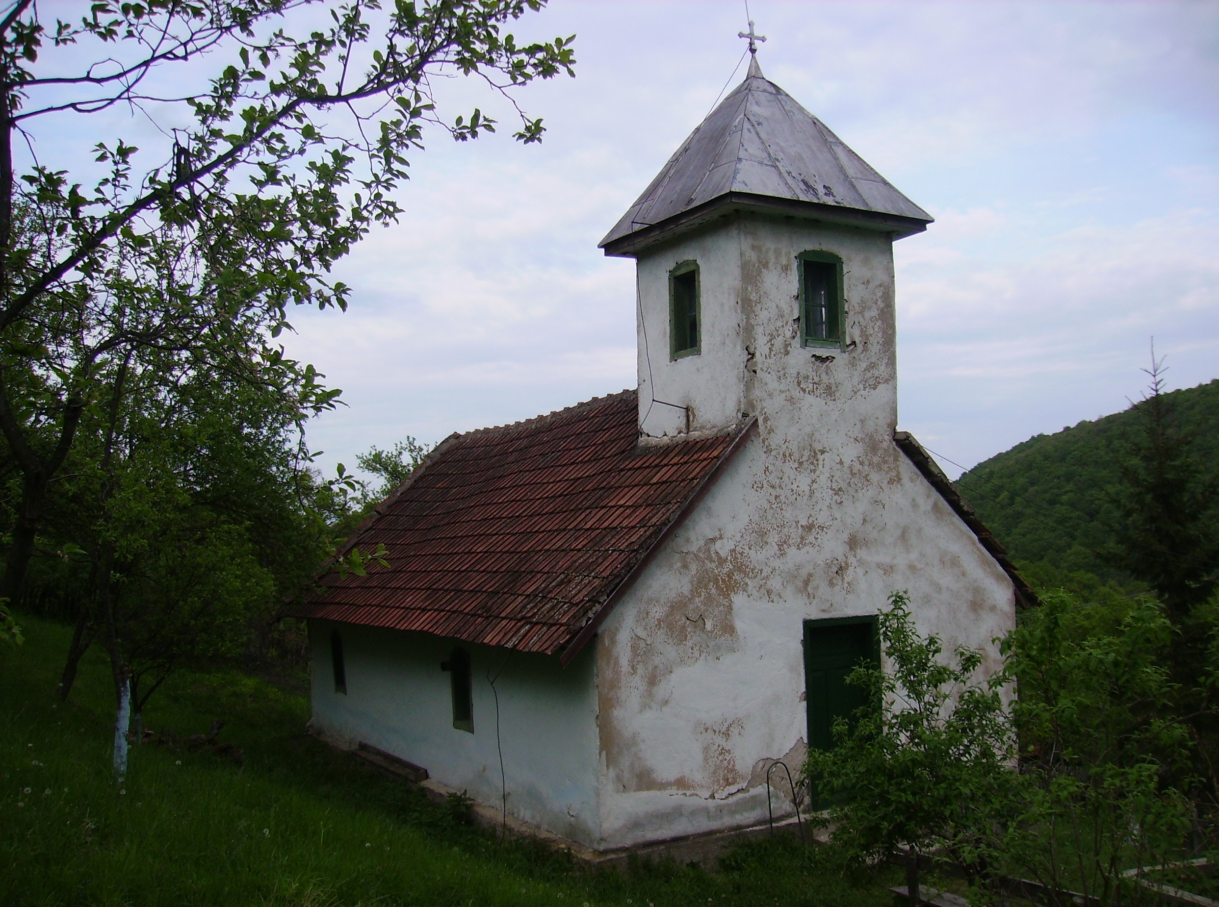 The wooden church in Ulm, Hunedoara county, Romania